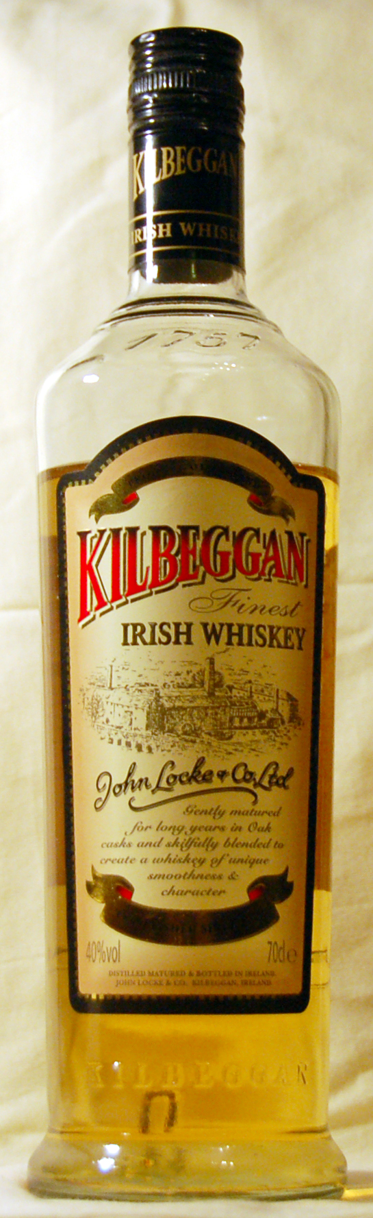 bottle of Kilbeggan Whiskey